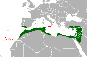 Distribution of the Common Chameleon Native Introduced